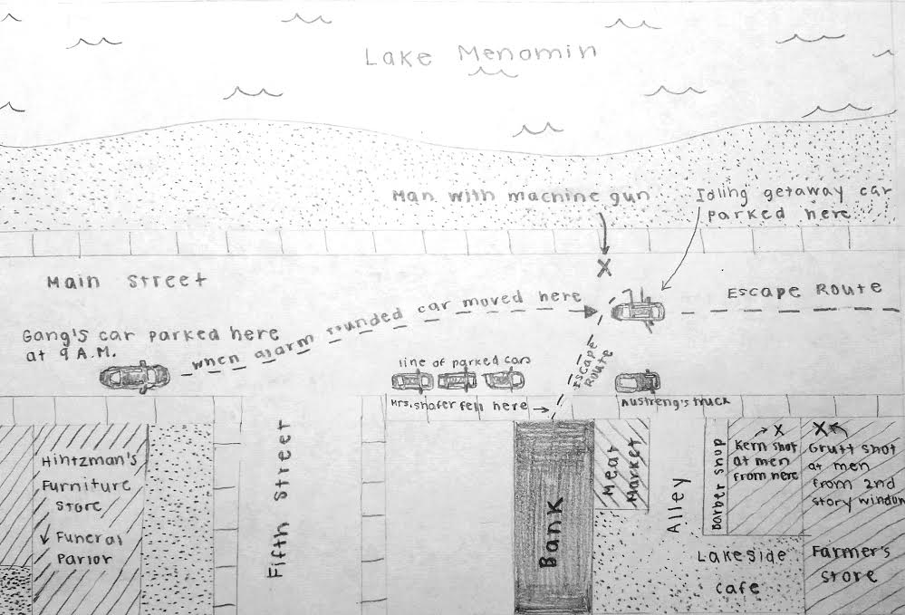 Kraft State Bank robbery escape route